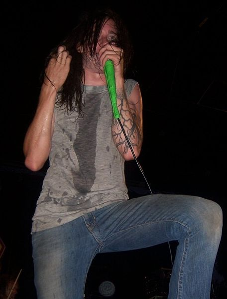 Spencer Chamberlain performing at the 2006 Cornerstone Festival.